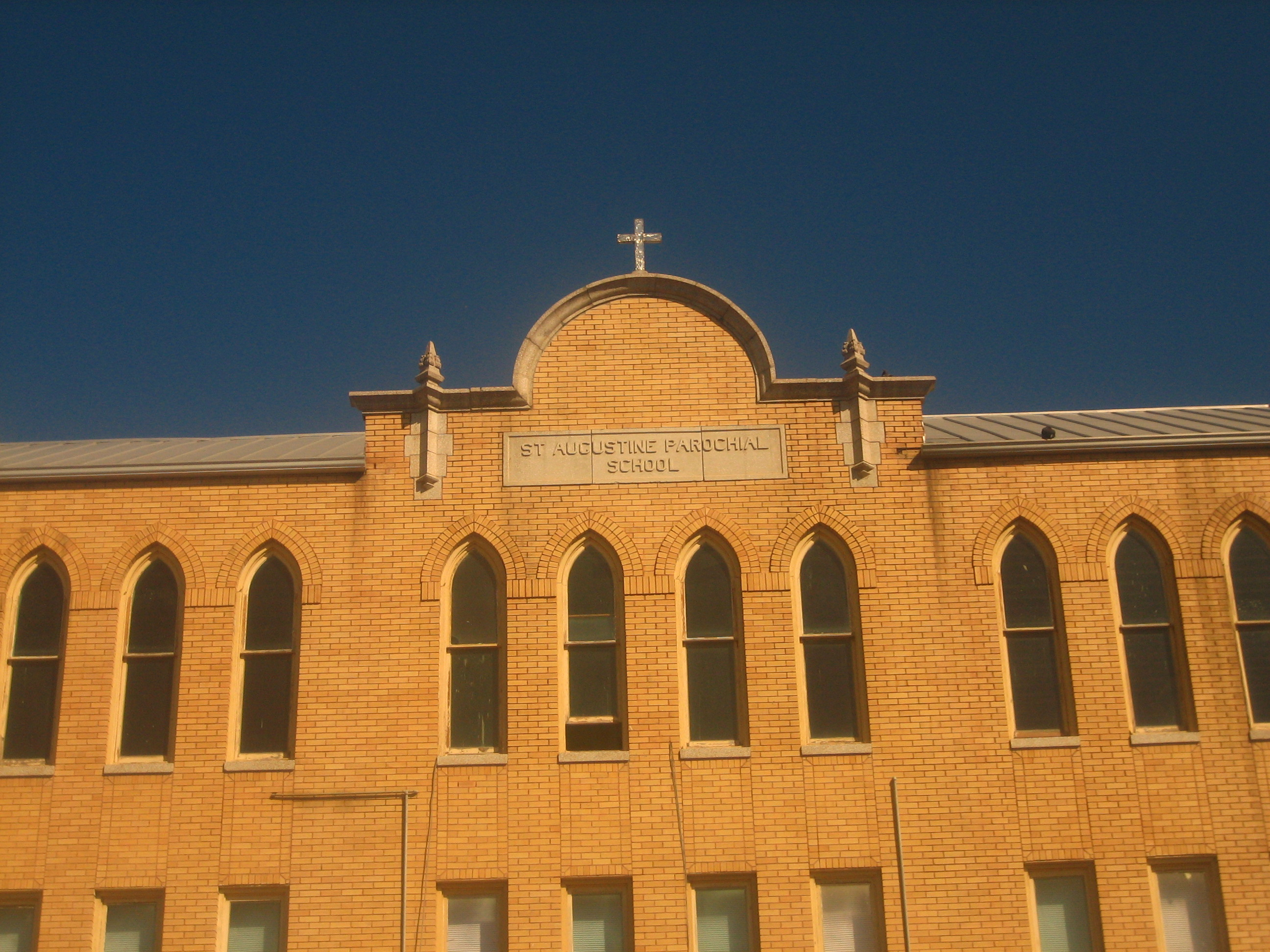 I took photo on Oct. 20, 2008.Billy Hathorn (talk) 03:32, 21 October 2008 (UTC)